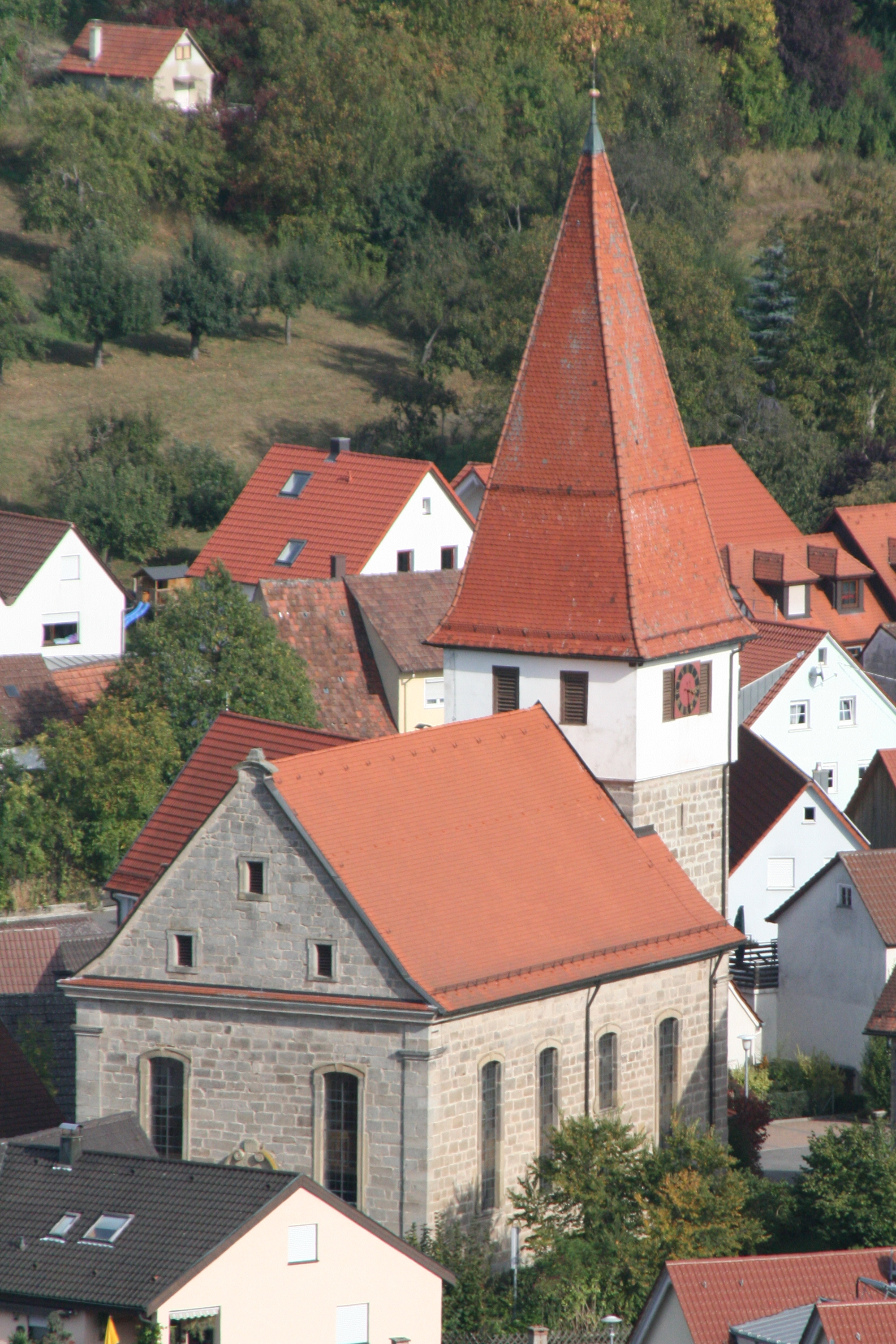 The protestant church St George and Nicholas in Unterheimbach